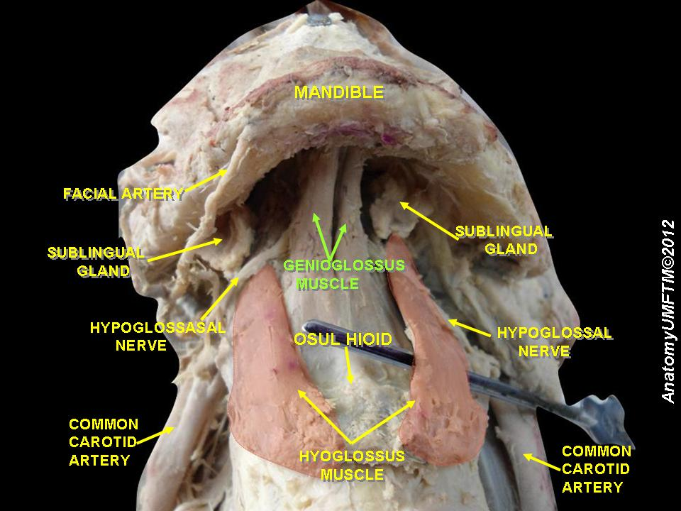 Anatomical dissections